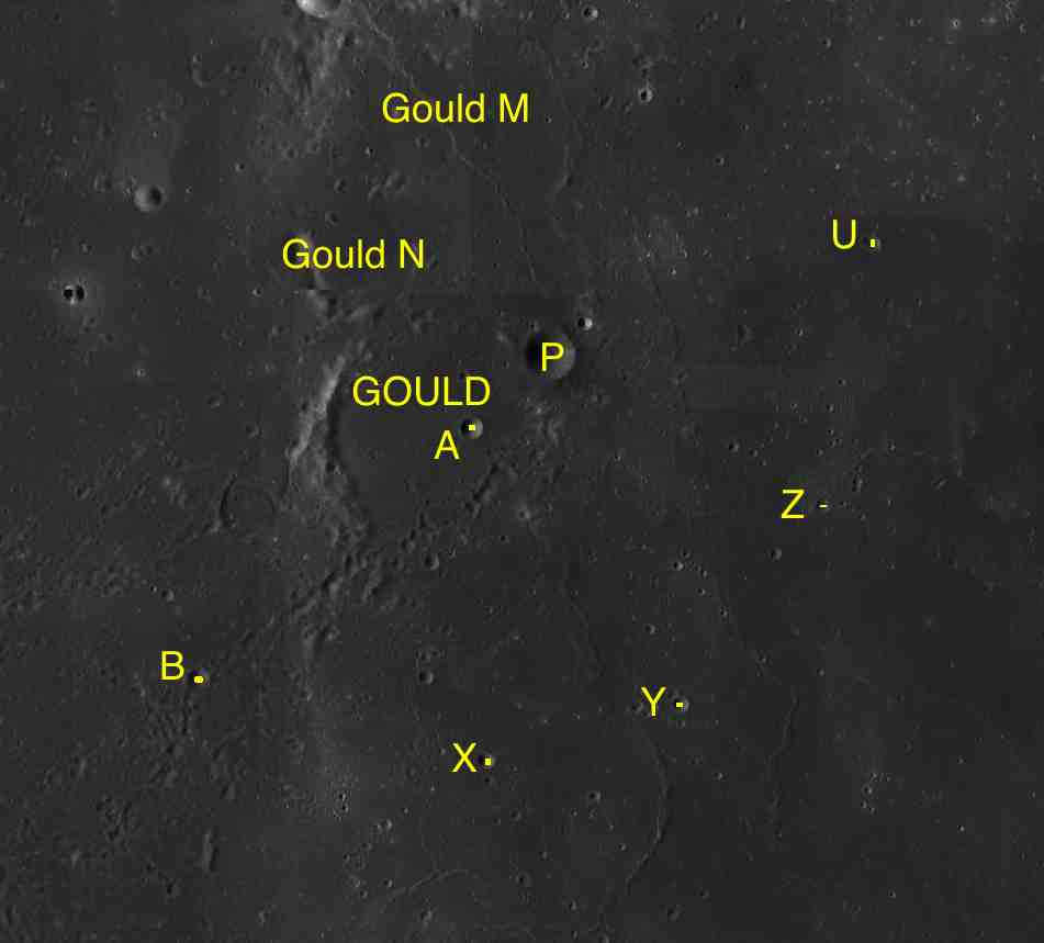 Part of the chart LAC-94 used for the presentation